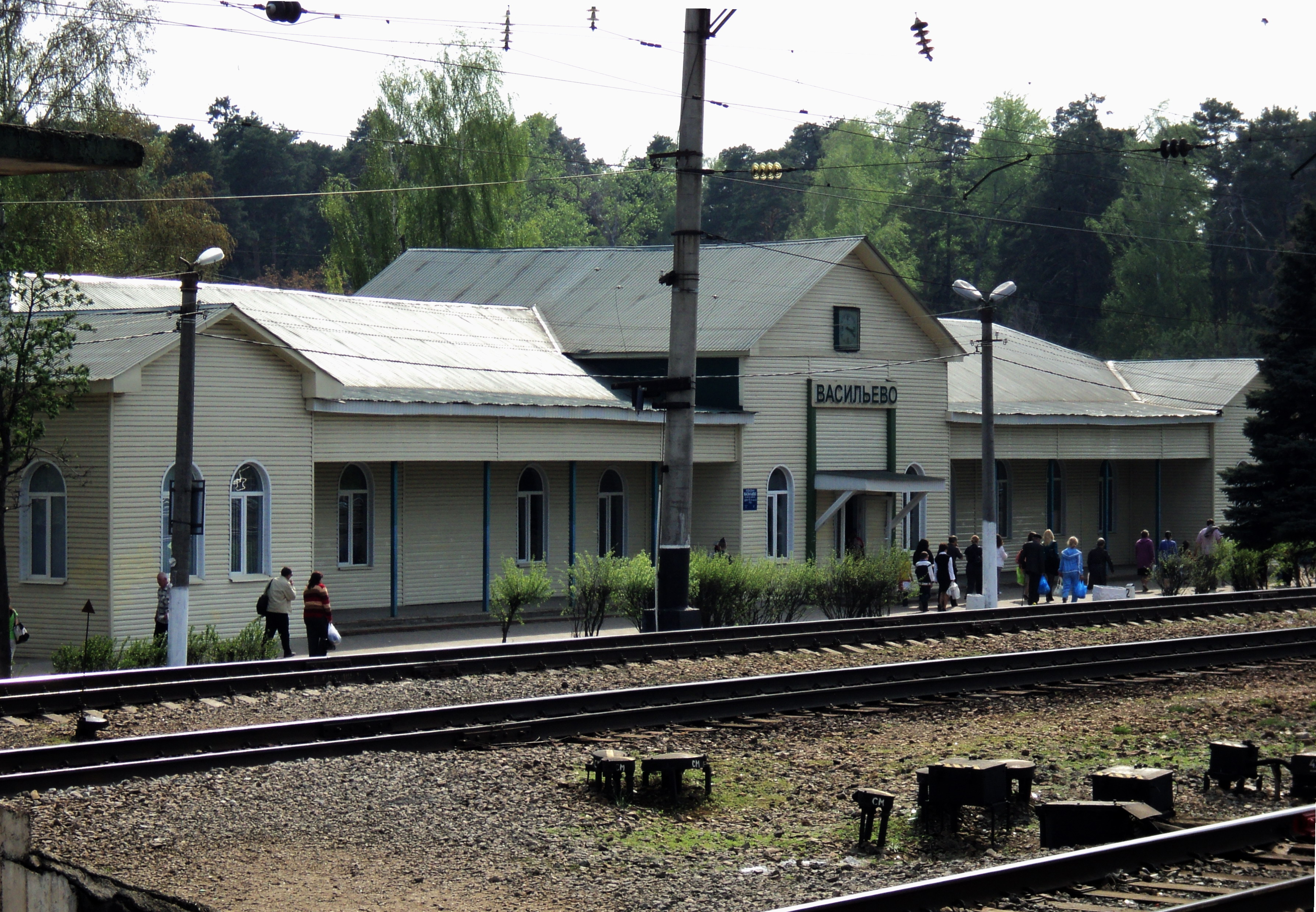 Vasilyevo, Zelenodolsky District, Republic of Tatarstan